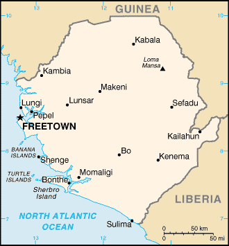 Map of Sierra Leone, showing major cities.